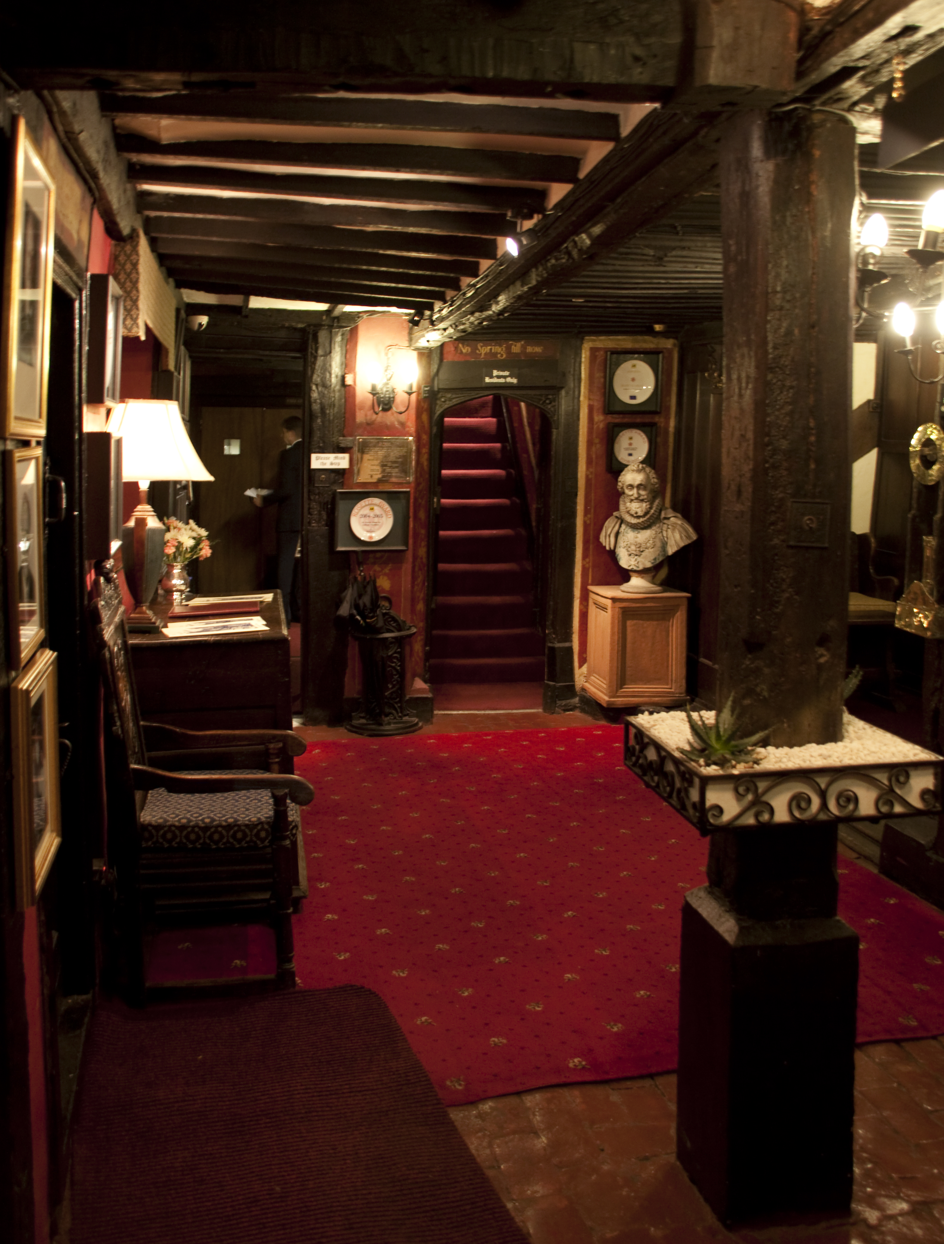 Entrance hallway, The Mermaid Inn, Rye, East Sussex.